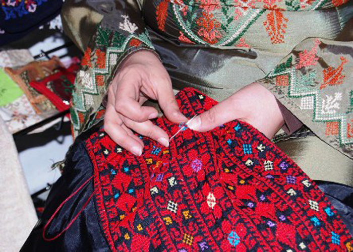 Embroidery, Art of Israel